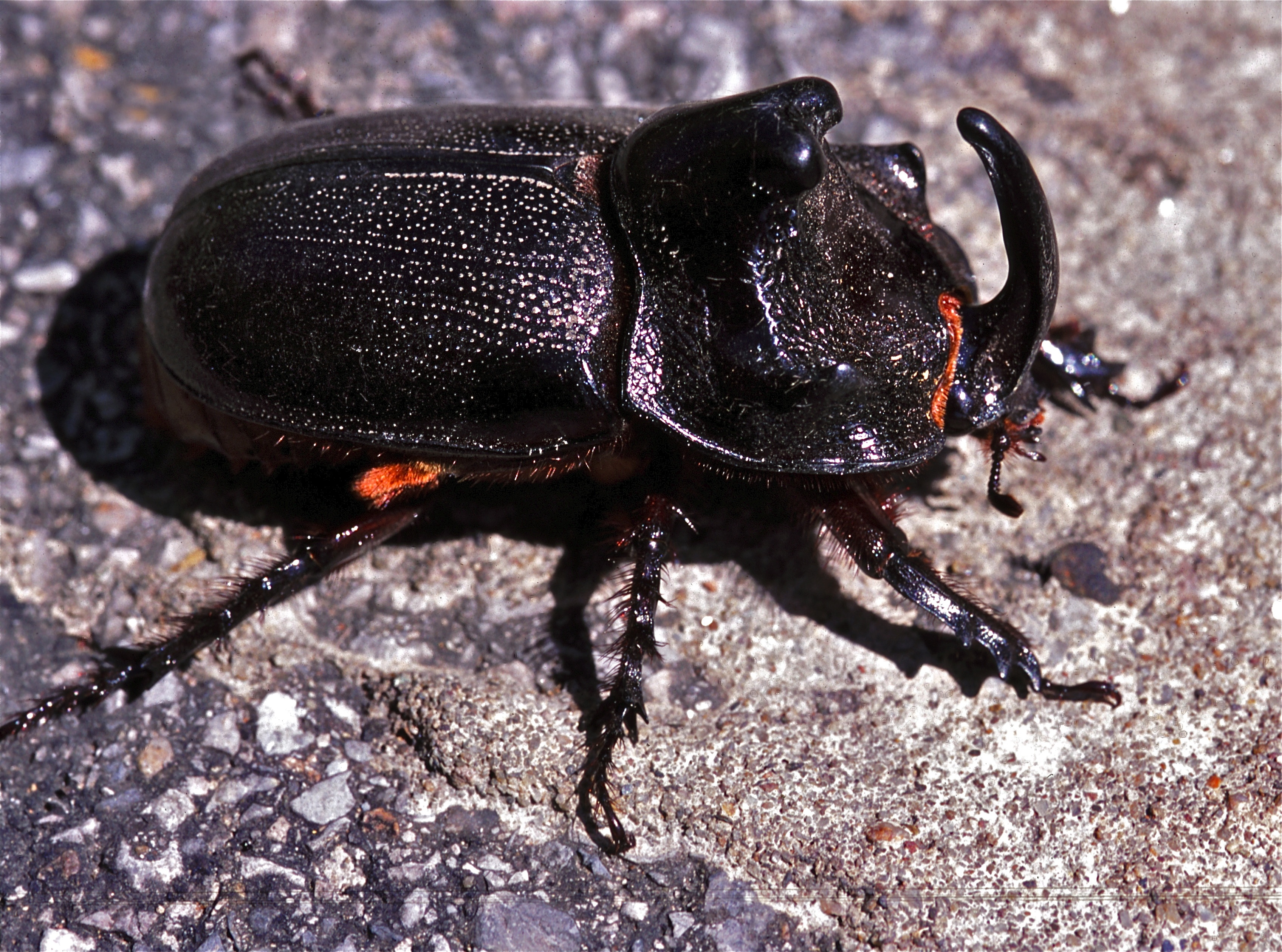 Nam Nao NP, THAILAND Scanned Slide from 2003